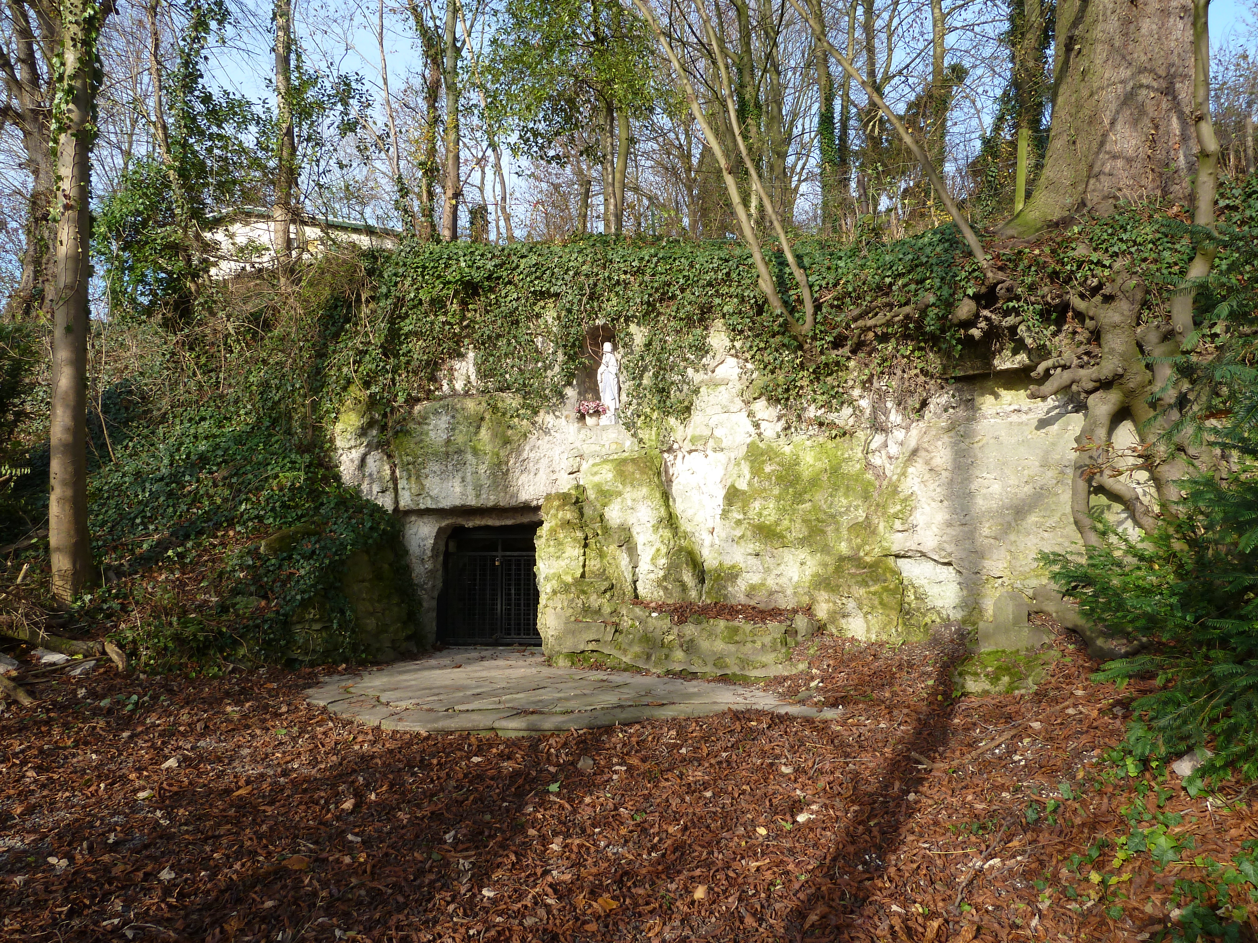 Boerenberg, Eys, Limburg, the Netherlands